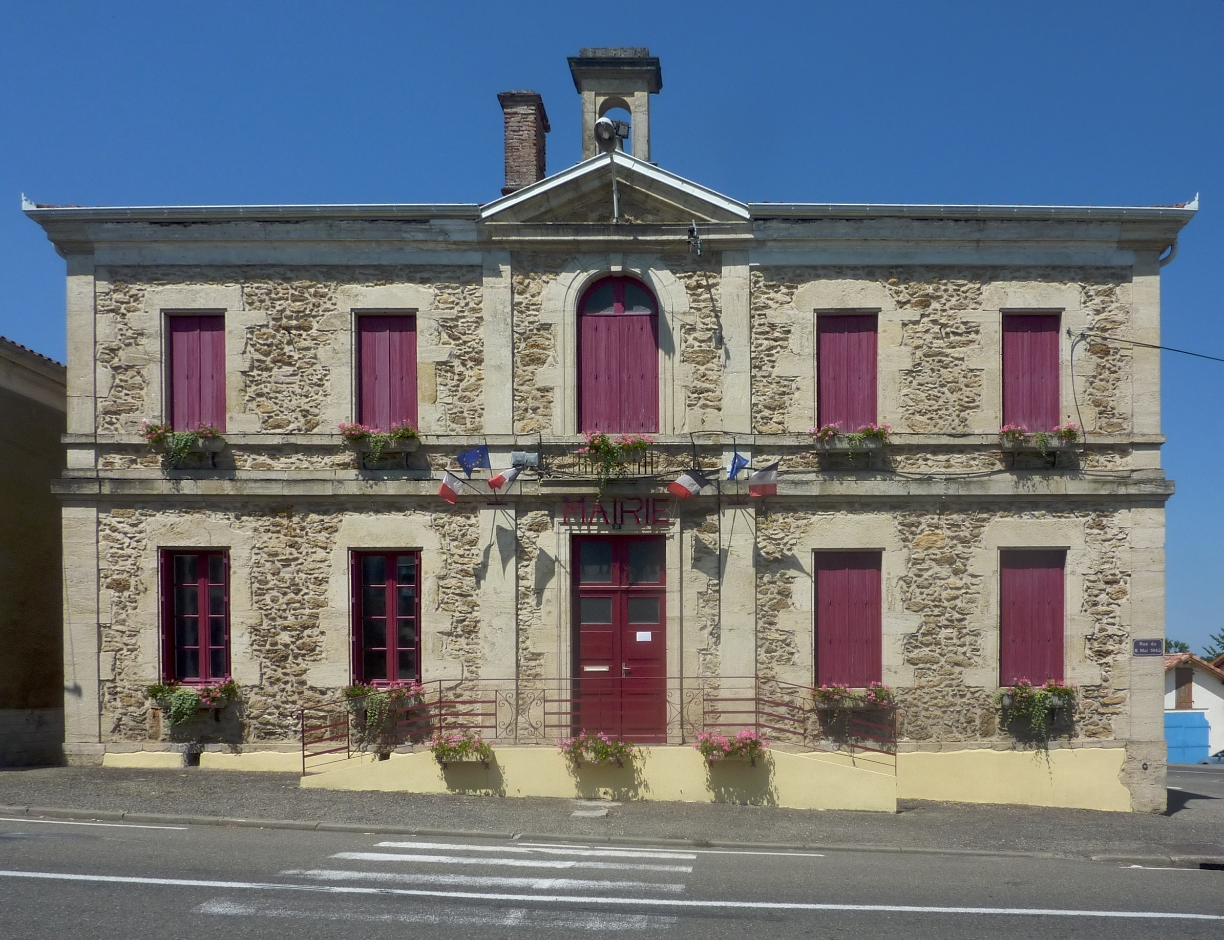 Town hall of Souprosse in Landes département